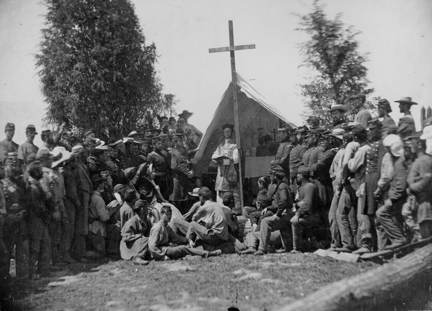 Father Thomas Mooney conducting mass for the 69th New York State Militia (69th New York Volunteer Infantry Regiment, later the 69th U.S. Regiment) encamped at Fort Corcoran, Washington, D.C., June 1, 1861. Colonel Michael Corcoran stands at Fr. Mooney's right. Published in The Irish American, June 22, 1861. Photographed by Mathew B. Brady.